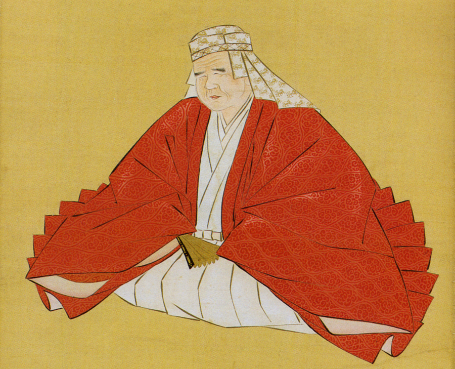 Hanawa Hokiichi, Iwaki, Fukushima, Japan